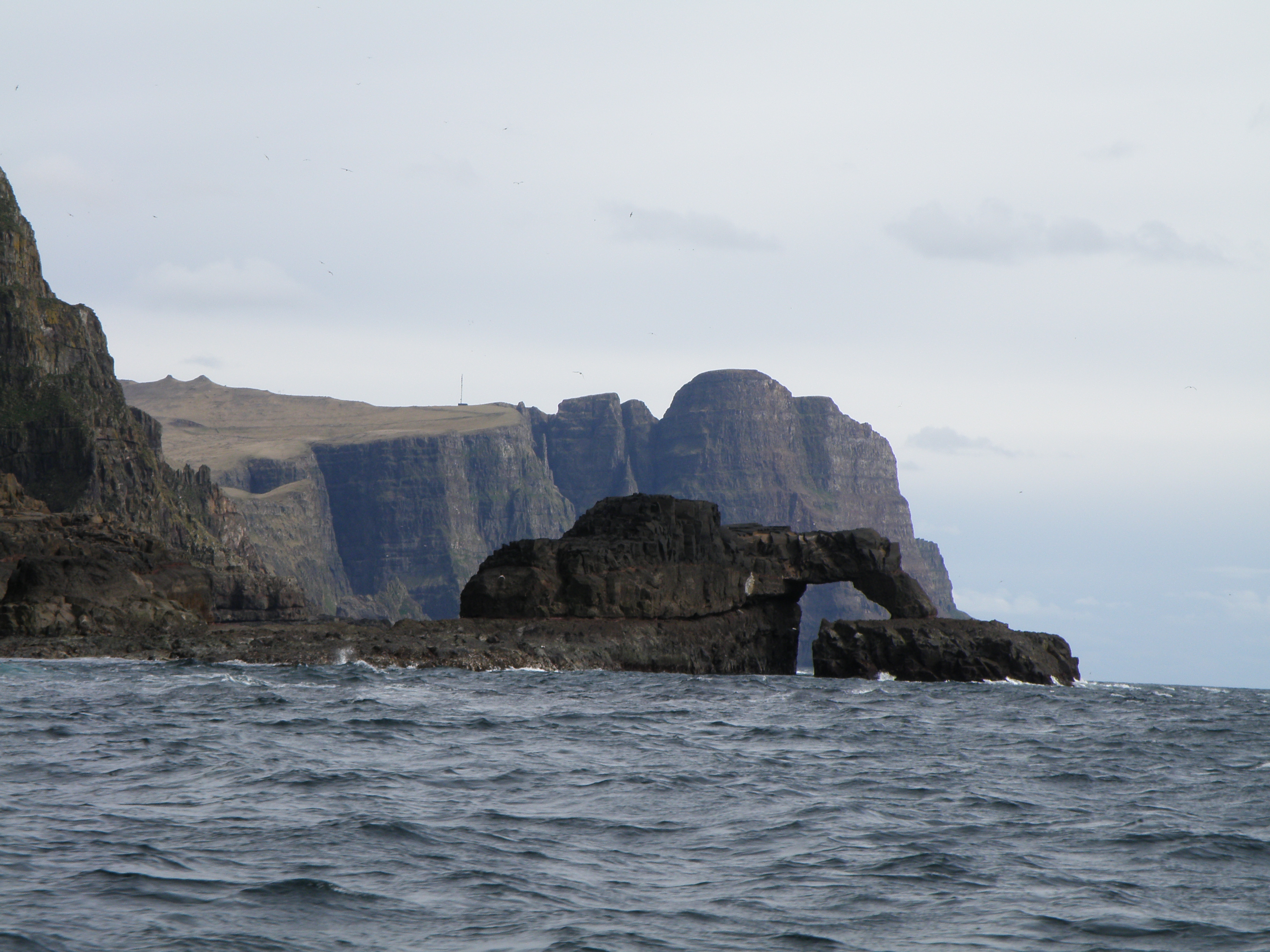 The cliff or rock / sea stack in the foreground is called Kamarið, which means Chamber, it is located south-west of the village Vágur in Suðuroy, Faroe Islands. Further south is the 470 meter high vertical sea cliff Beinisvørð. This photo was taken from a boat. Føroyskt: Kamarið verður hetta skerið nevnt. Beinisvørð sæst aftanfyri, longri suðuri. Kamarið er sunnanfyri Vágseiði, beint undir Eggjunum. Tað sæst ikki av Vágseiði, har ið vegurin endar, men um ein gongur longur eitt sindur niðan á og vestur eftir fjallinum, so sæst tað. Henda myndin varð tikin av báti.